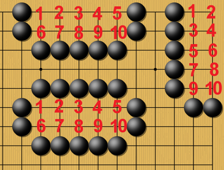 Go points counting